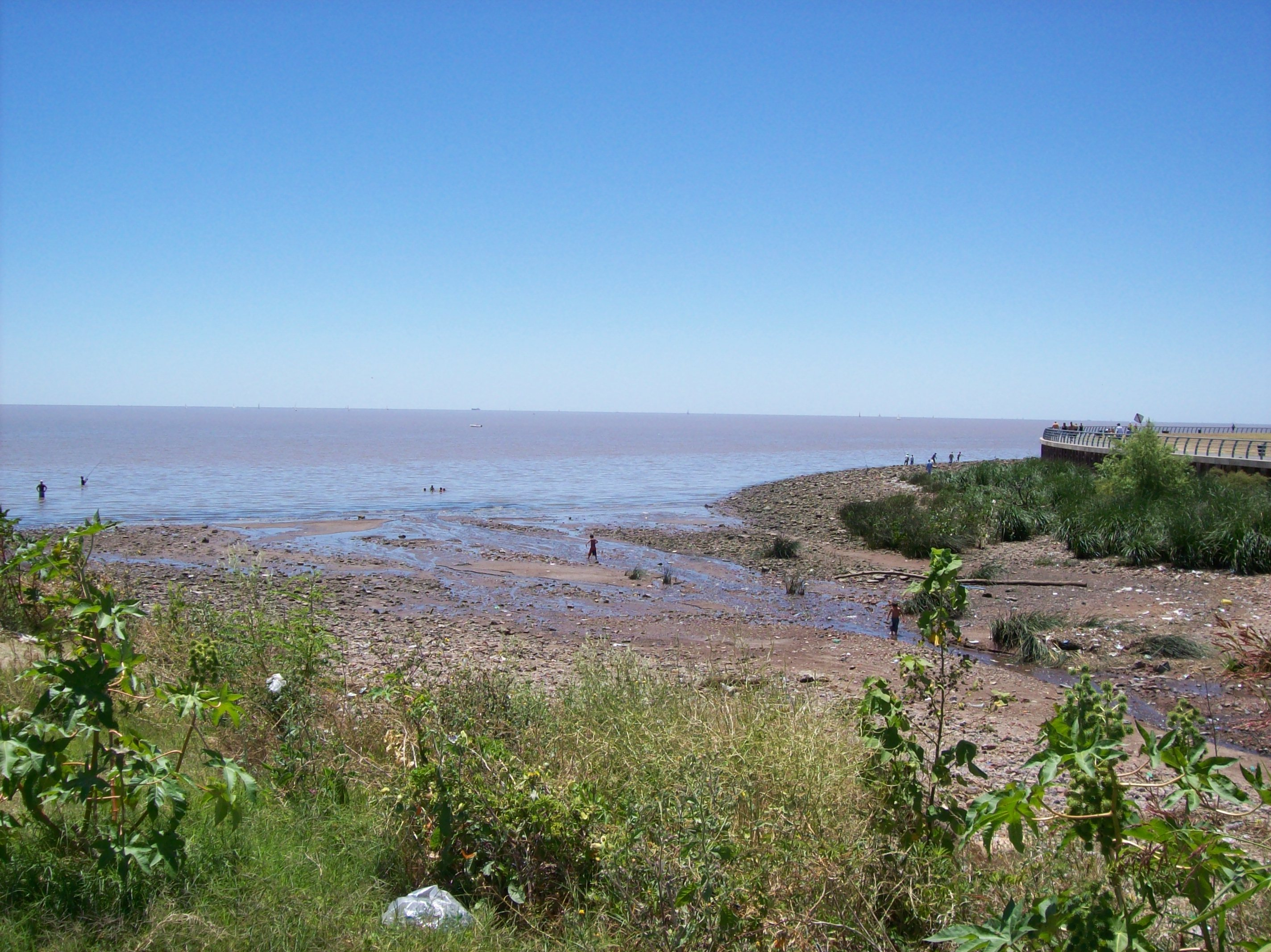 Mouth of the Raggio Stream on the Rio de la Plata. This stream is on the northern border between Buenos Aires city (right) and Buenos Aires province (left), Argentina.